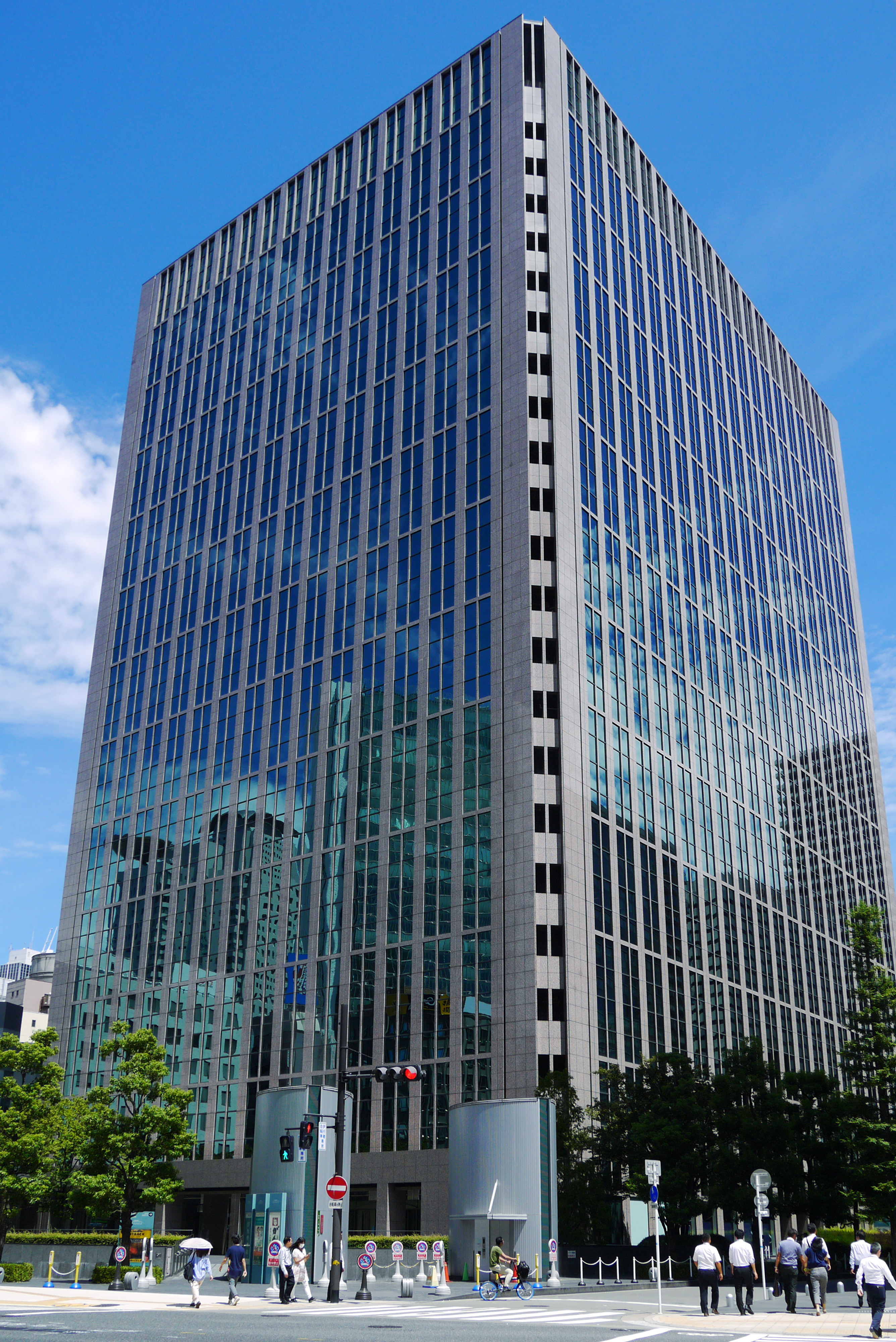 Dojima Avanza, Osaka, Osaka prefecture, Japan Panasonic Lumix DMC-GF5